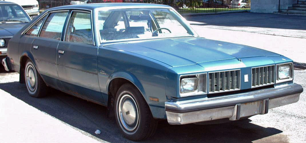 1979 Oldsmobile Cutlass Salon fastback sedan photographed in Montreal, Quebec, Canada.